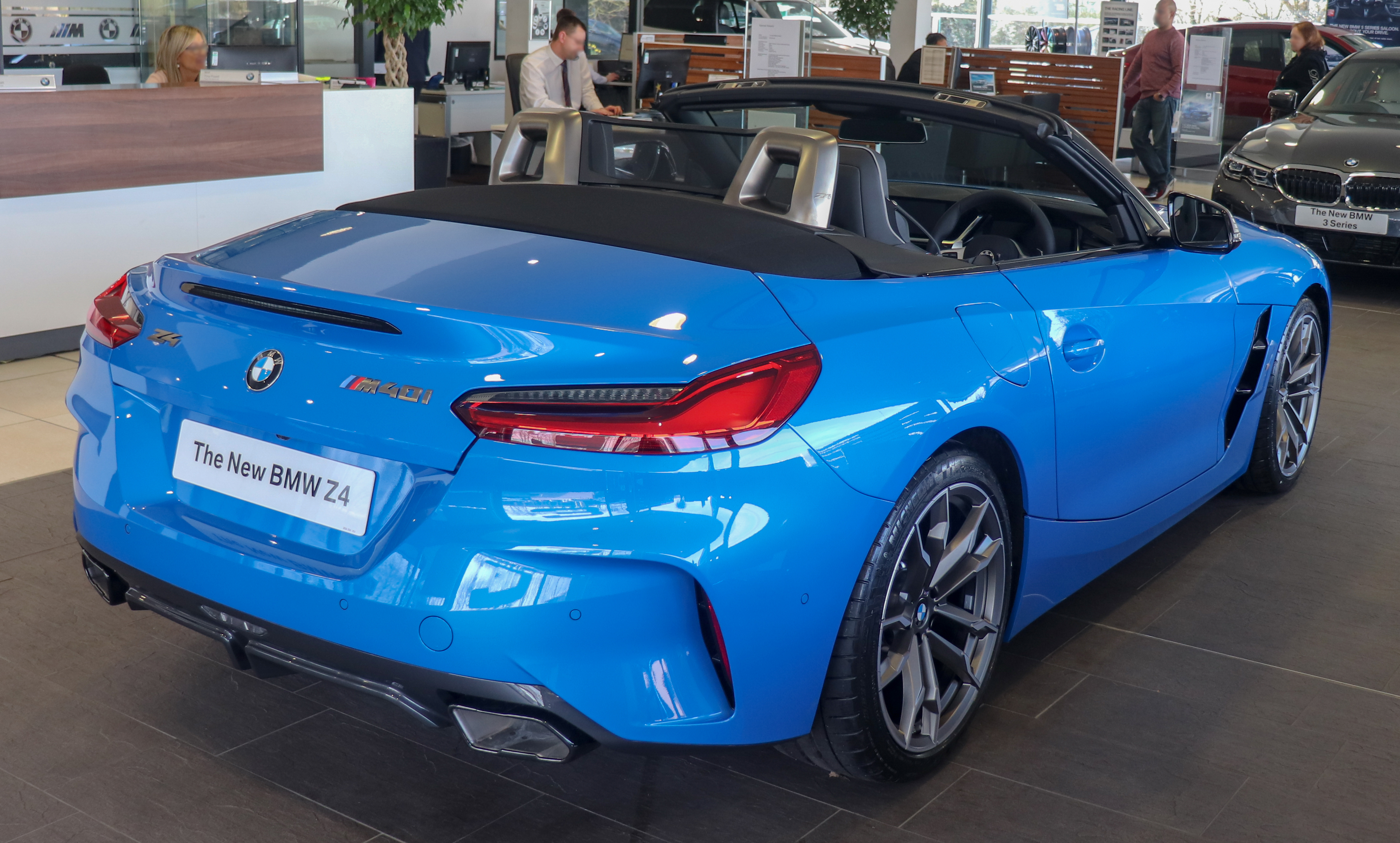 2019 BMW Z4 M40i Rear Taken in Leamington Spa